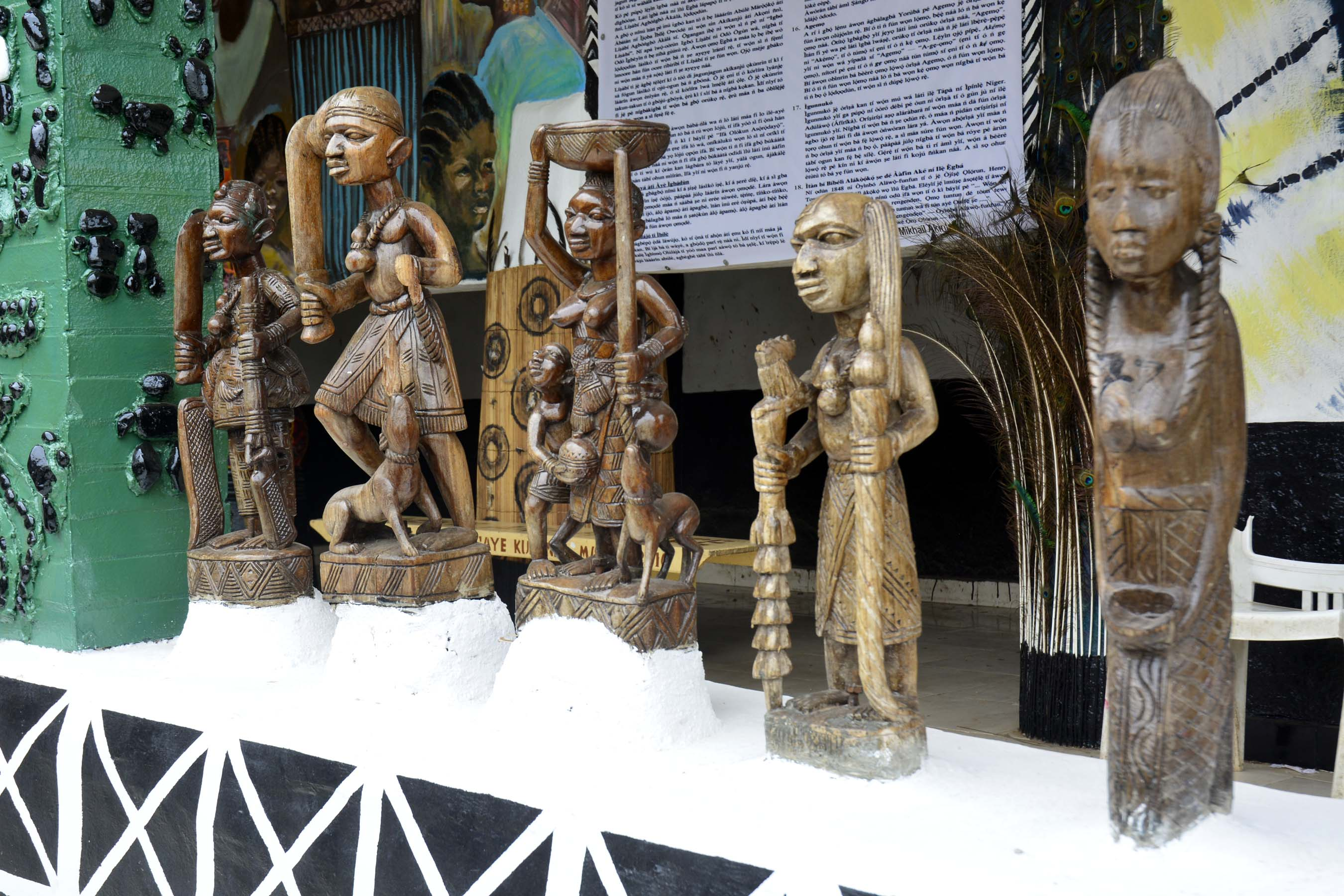 Orishas in Oba's palace, Abeokuta